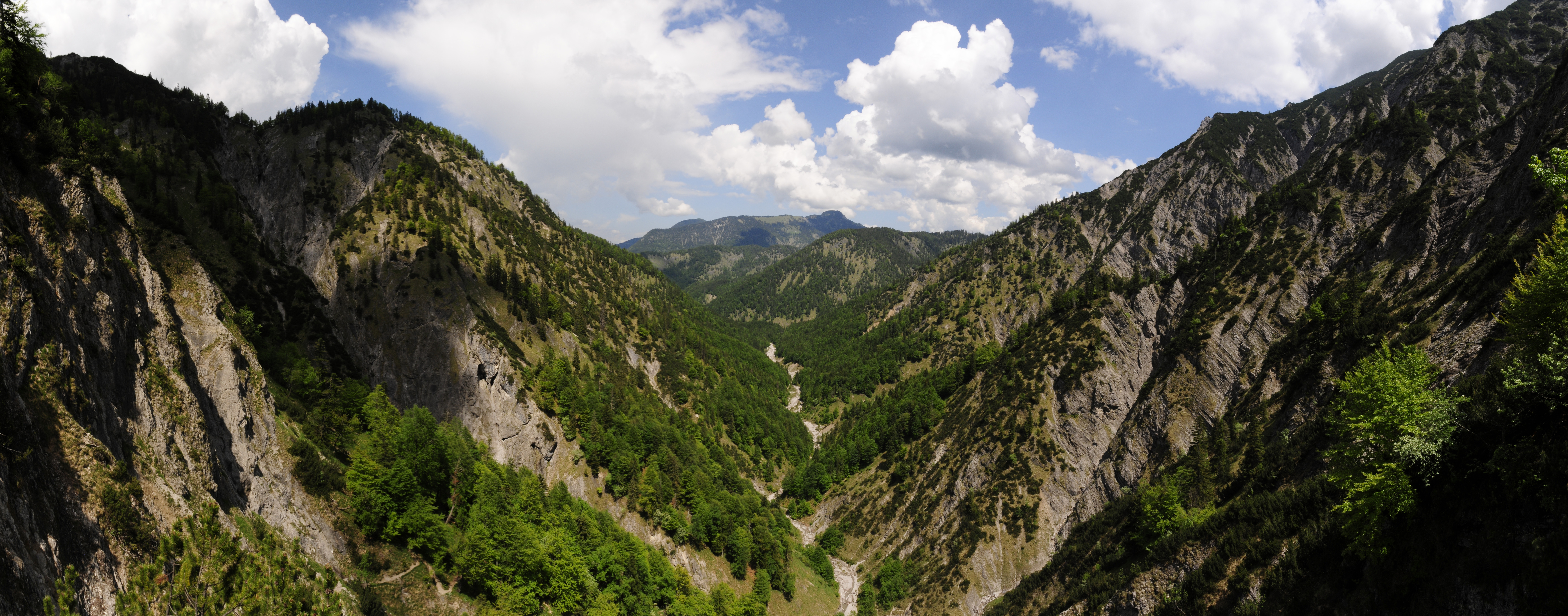 Please report references to .